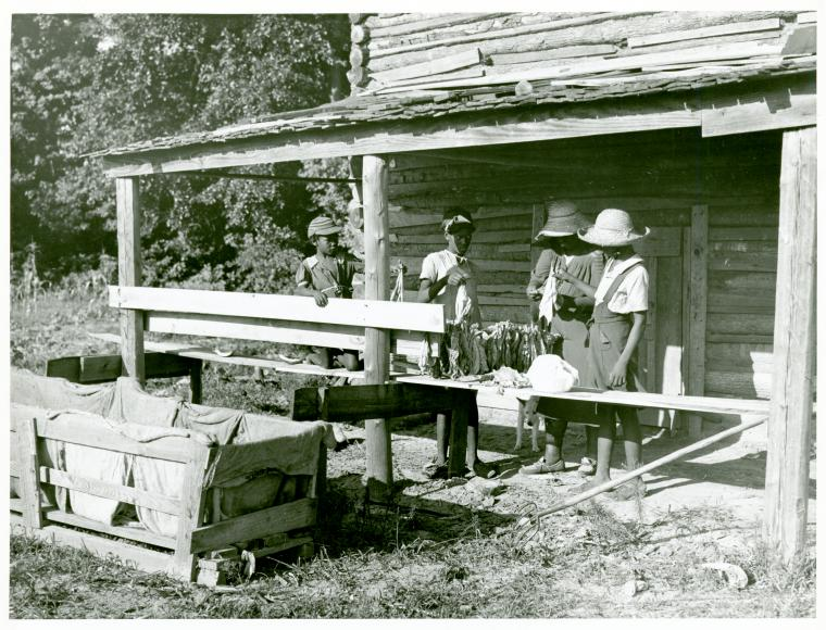 Digital ID: 1260134. Pauline Clyburn, rehabilitation client, and her children stringing tobacco; Manning, Clarendon County, South Carolina.. Wolcott, Marion Post -- Photographer. Date depicted: June 1939 Notes: LOC negative # : 51920-D. Source: Farm Security Administration Collection. / South Carolina. / Marion Post Wolcott. (more info) Repository: The New York Public Library. Schomburg Center for Research in Black Culture. Photographs and Prints Division. See more information about this image and others at NYPL Digital Gallery. Persistent URL: Rights Info: No known copyright restrictions; may be subject to third party rights (for more information, click here)